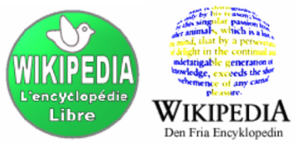 Swedish and French Wikipedia 2ND Logo. Adopted in 2002/3.